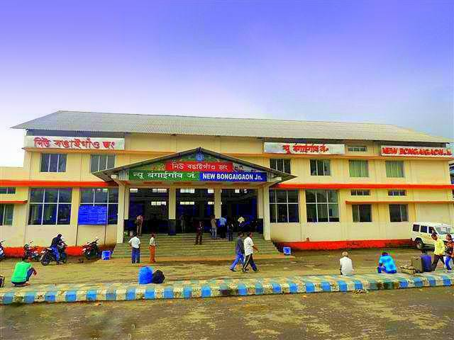 photo